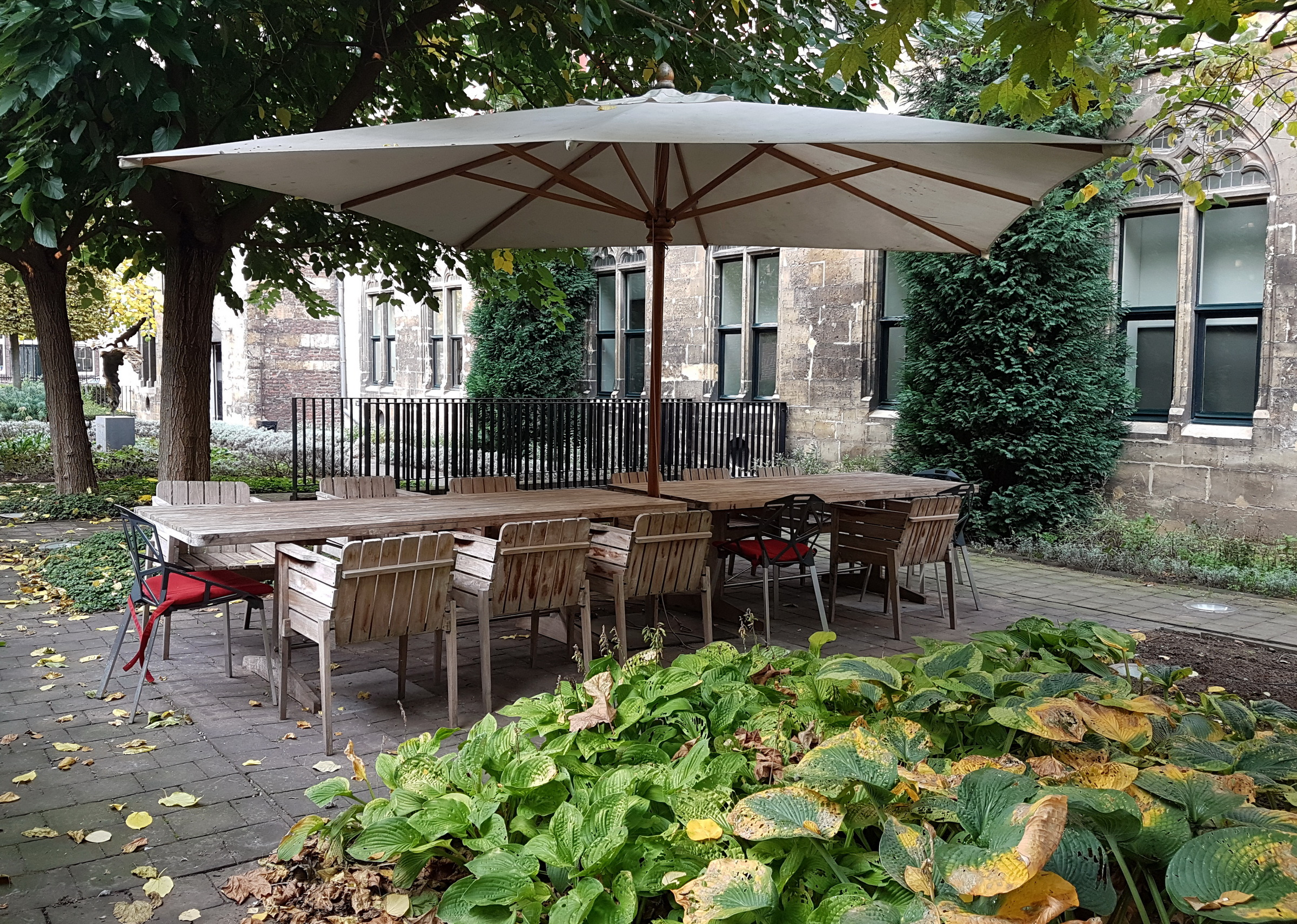 Garden view of Kruisherenklooster, a 15th-century former Crozier monastery, now a luxury hotel, in the centre of Maastricht, the Netherlands.